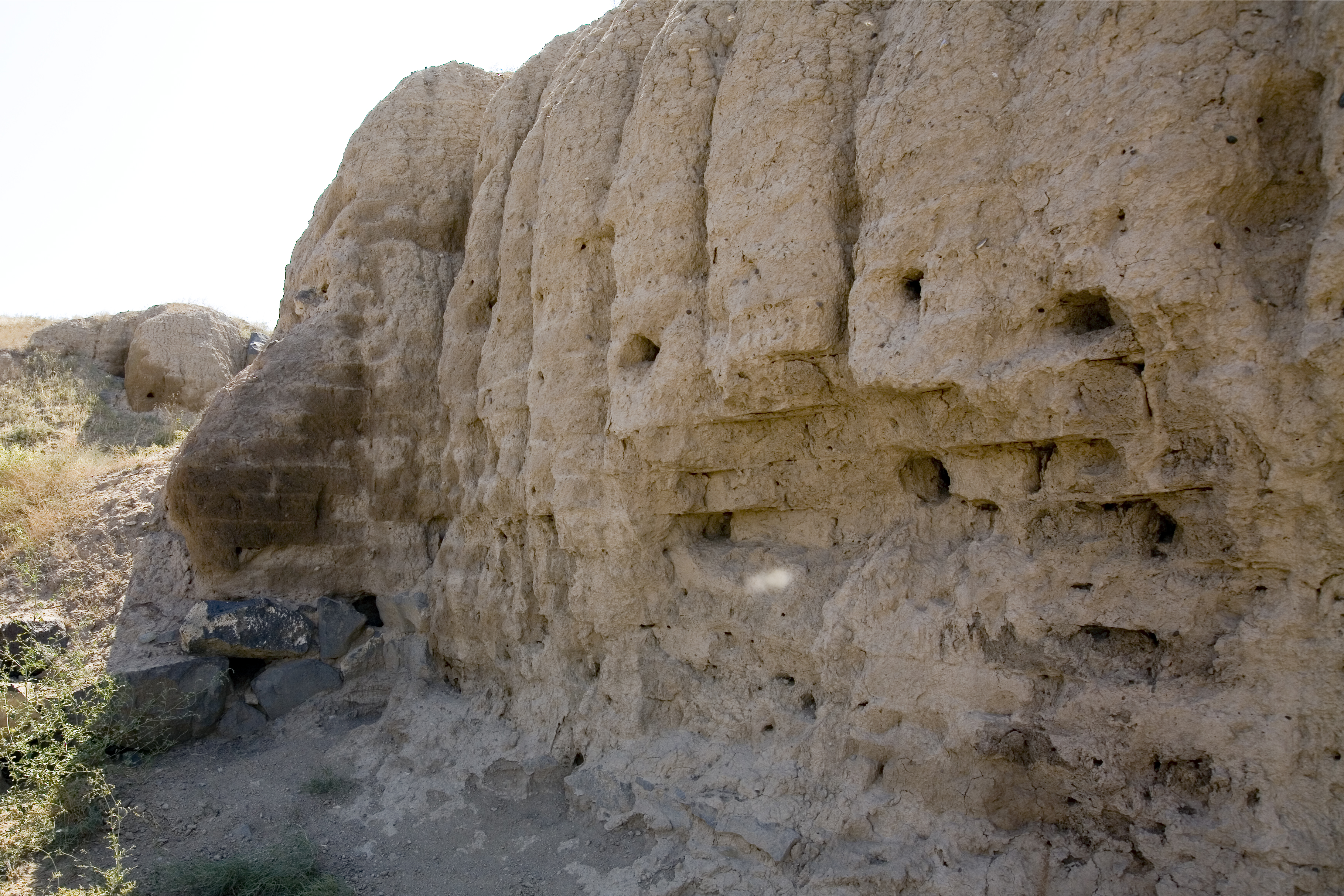 Wall at Karmir Blur